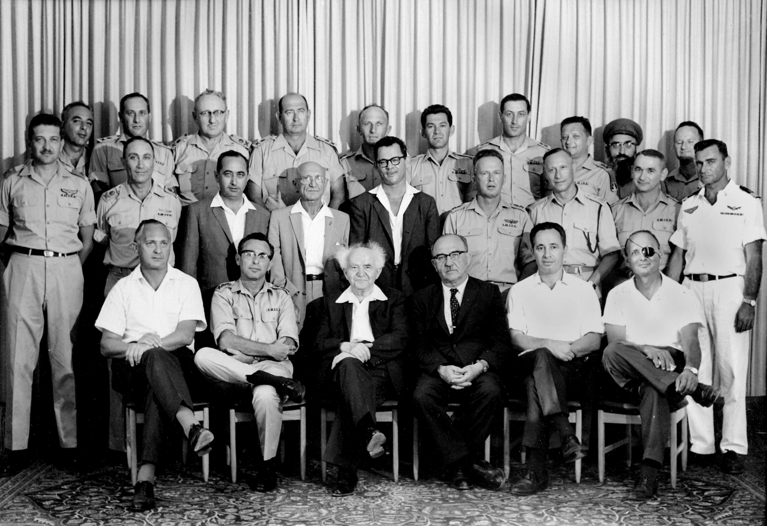 Joint photo of senior IDF staff with Prime Minister and Minister of Defense David Ben-Gurion & Defense Ministry officials. Sitting R-L: Moshe Dayan, Shimon Peres, Levy Eshkol, Ben-Gurion, Tzvi Zur and Asher Ben-Nathan.